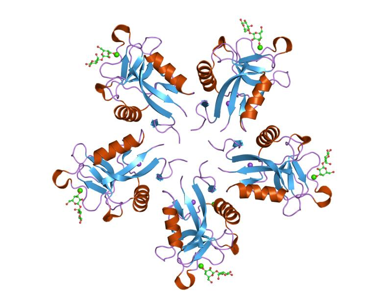 Cartoon representation of the molecular structure of protein registered with 1jzn code.